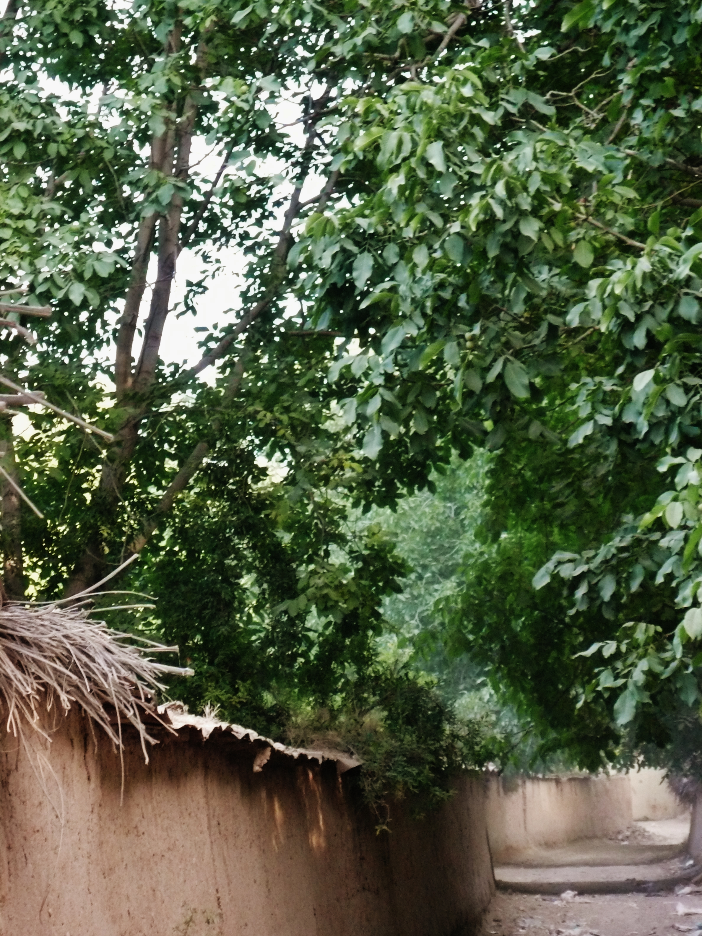 Shiraz Garden Drives